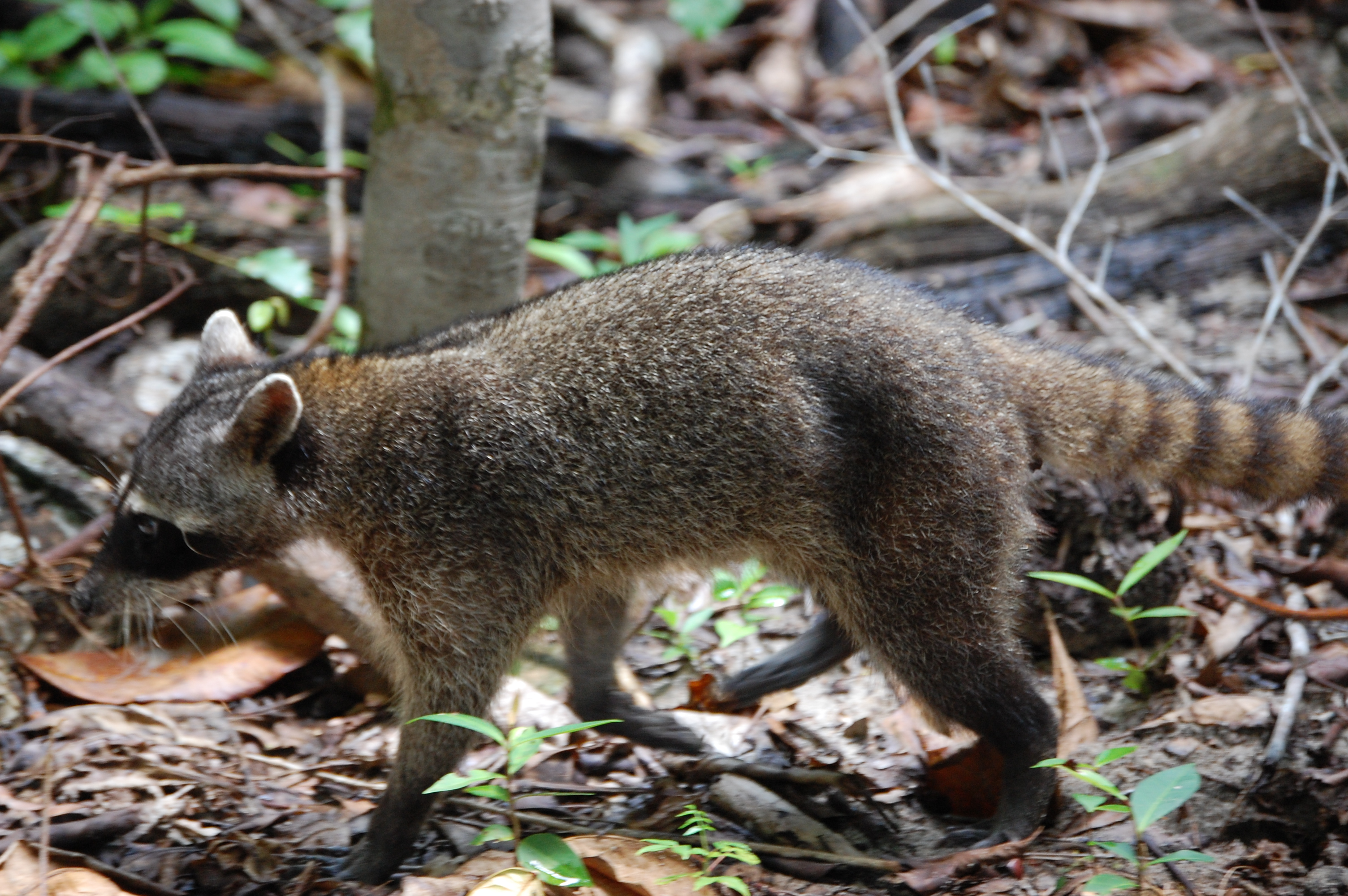 Crab-eating raccoon (Procyon cancrivorus) in Manuel Antonio National Park, Costa Rica. This is one of a pair that came down to the beach together.